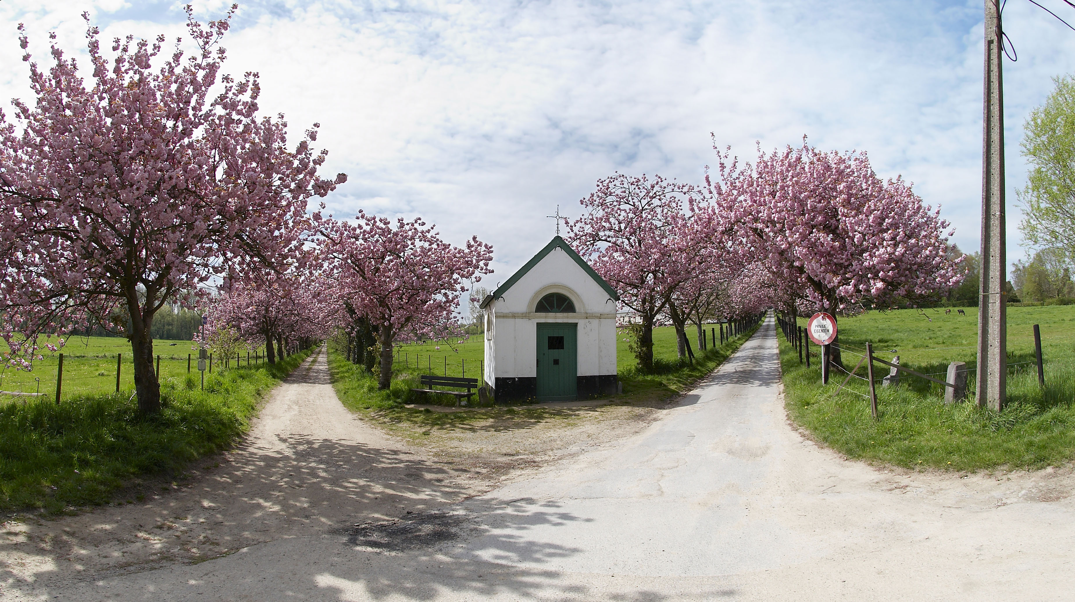 Small chapel (St. Rochus) at the corner of the Lindenhoflaan and Prins de Bethunelaan in Neerijse (Huldenberg), Belgium. The photo has been taken with a AF Fisheye Nikkor 10.5 mm lens. - Google Maps - Google Earth